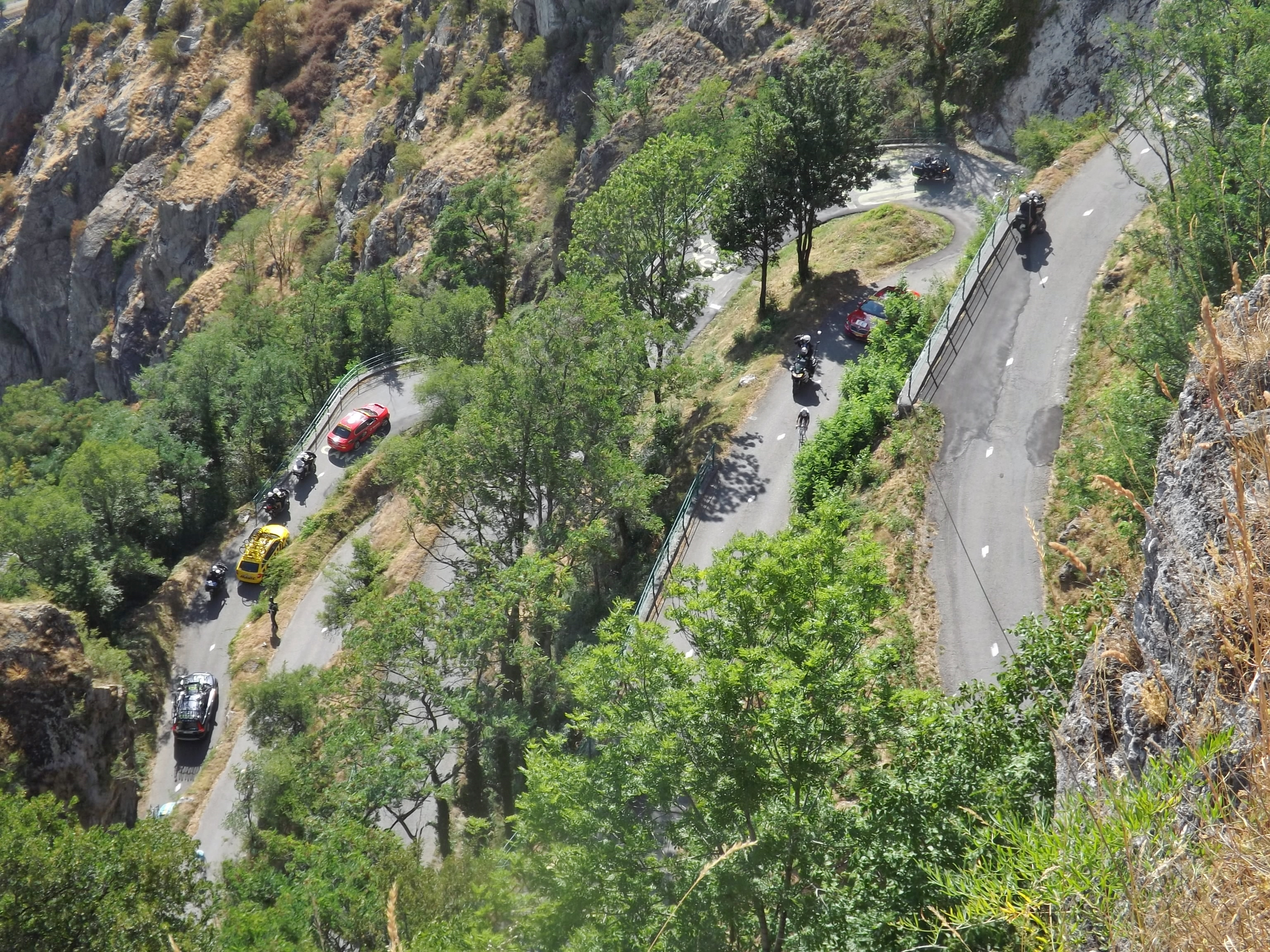 Sight of the French cyclist Romain Bardet, first to climb the 18 lacets de Montvernier road bends in the Maurienne valley (Savoie), during the 18th stage of Tour de France 2015.